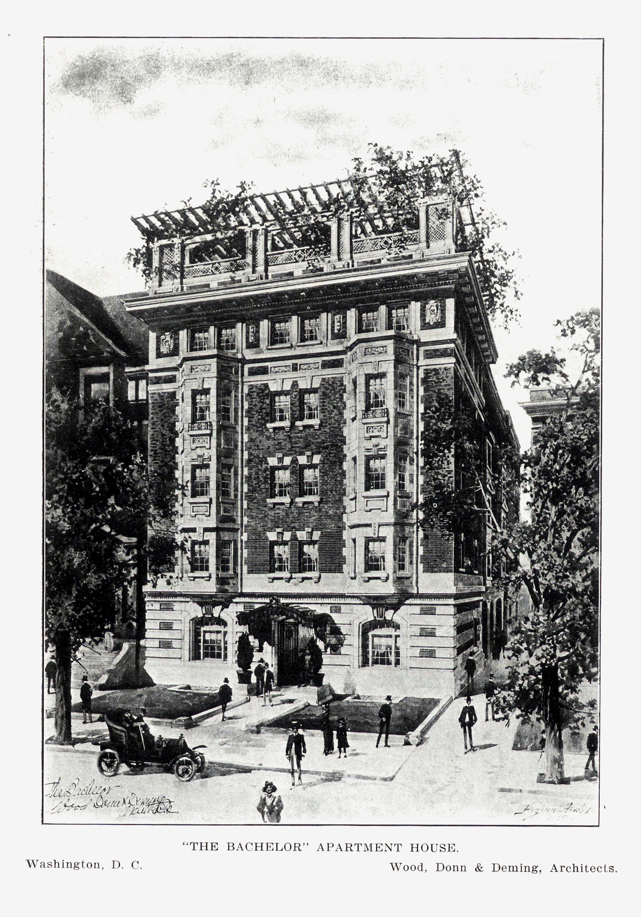 "The Bachelor" Apartment House from the April 1906 issue of the Architectural Record.